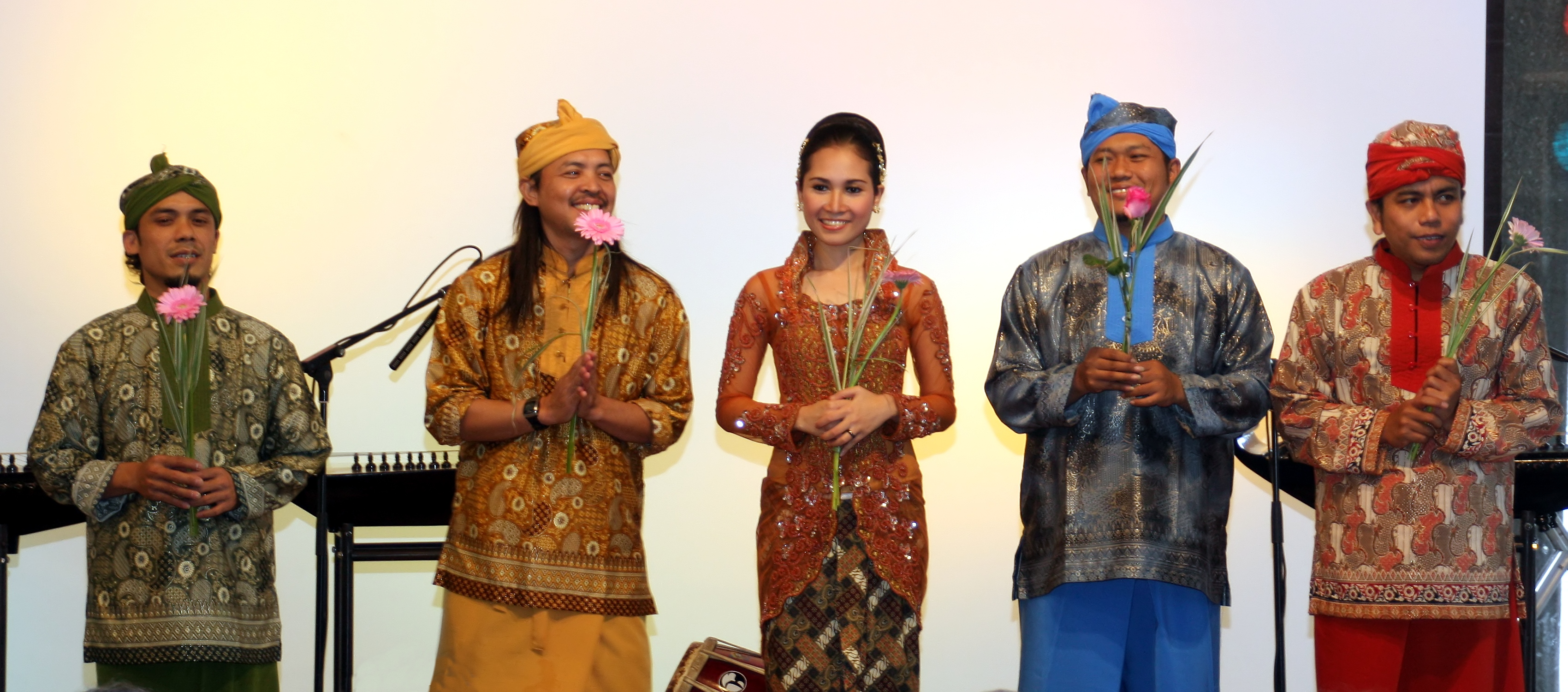 The SambaSunda quintett from Java, Indonesia, performs in Cologne